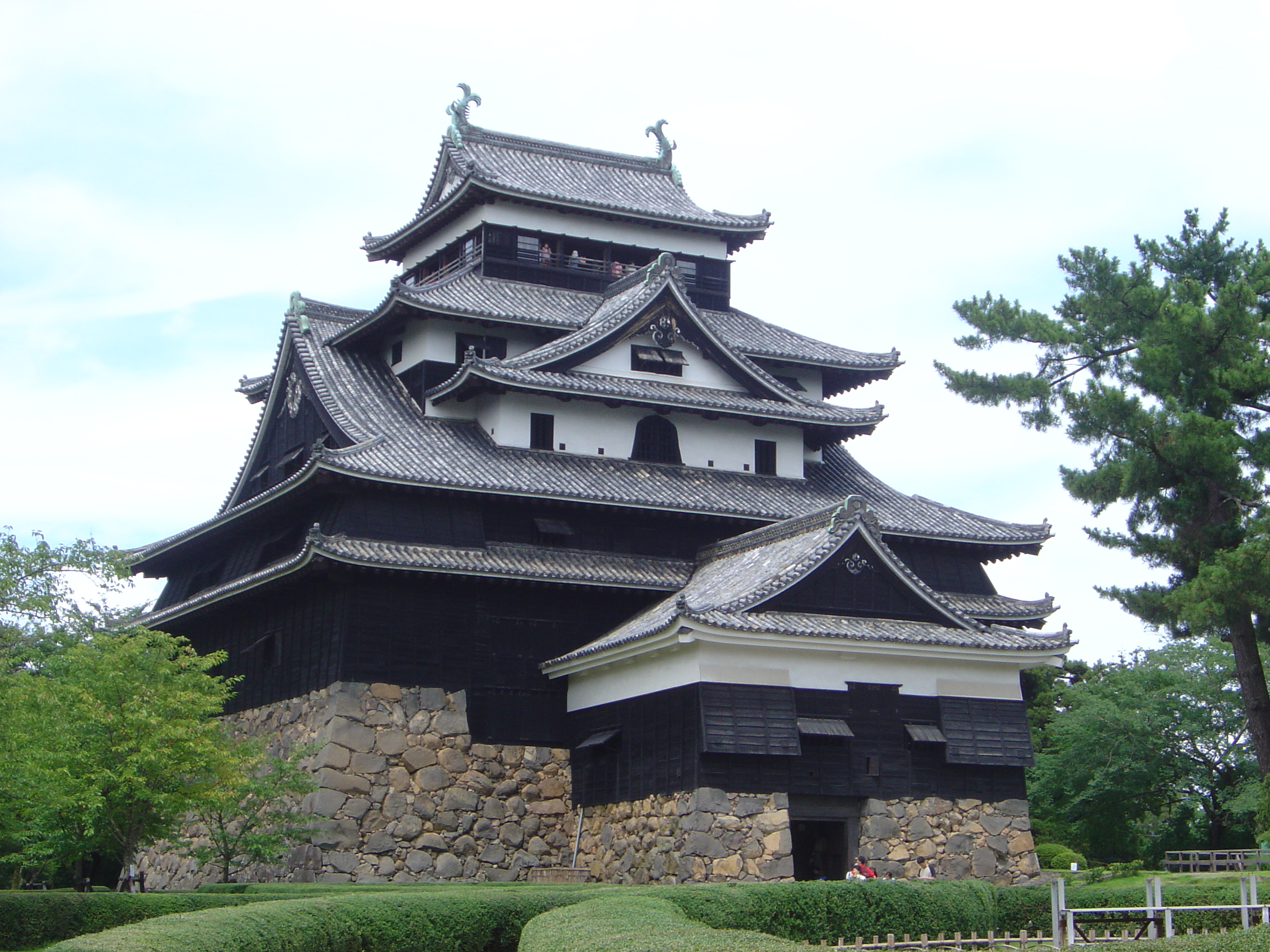 The keep of Matsue Castle. Copyright (c) 2003 David Monniaux